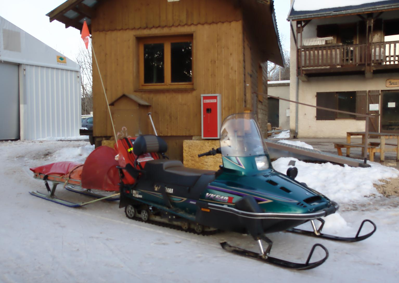 Snowmobile for emergency services to skiers and other mountain users, towing a stretcher and carrying emergency equipment, in Bois-Barbu, near Villard-de-Lans, Isère, France